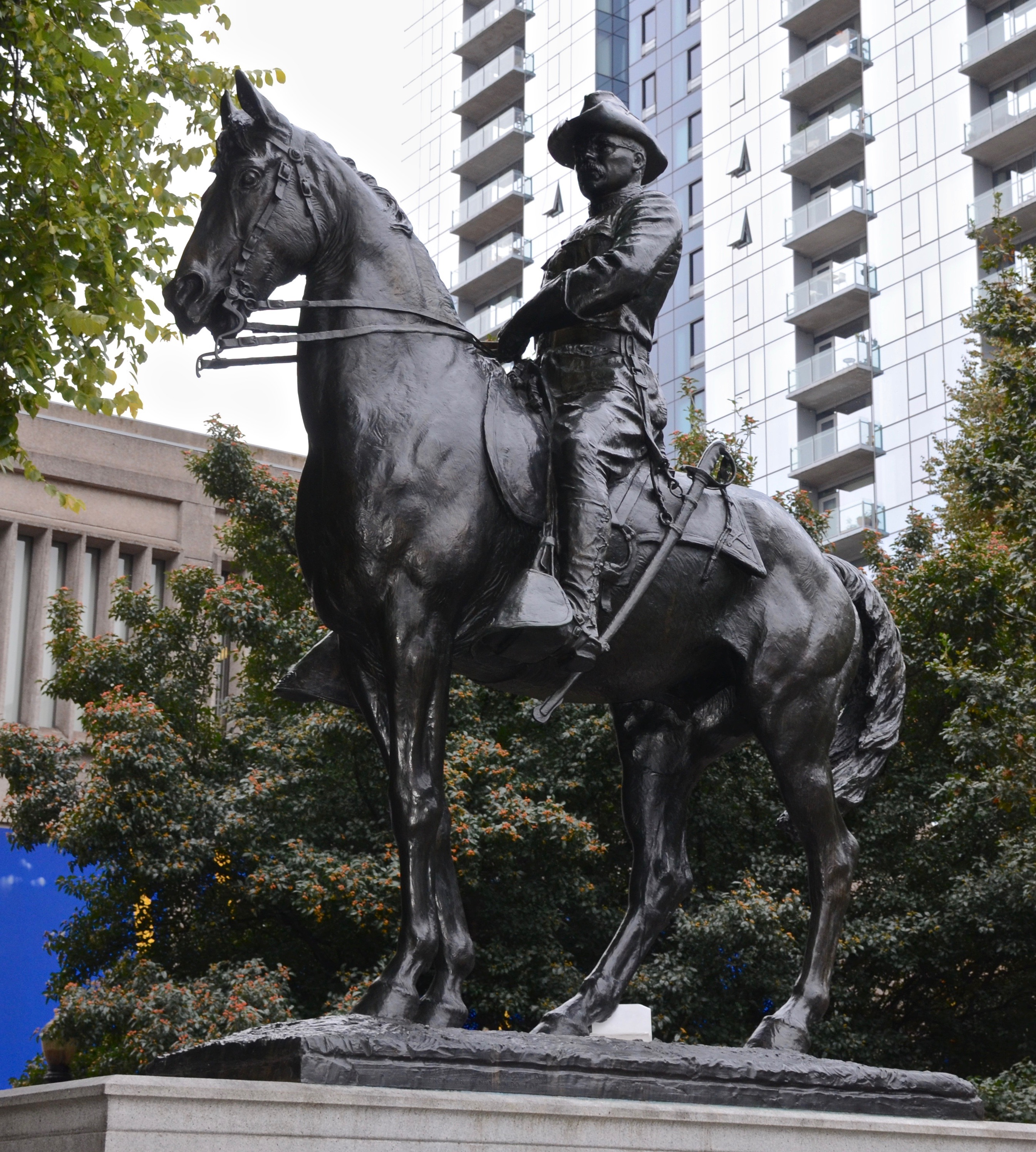 The 1922 statue, Theodore Roosevelt, Rough Rider, in the South Park Blocks, Portland, Oregon. The statue stands atop a 6-foot-tall pedestal, not shown in this photo.